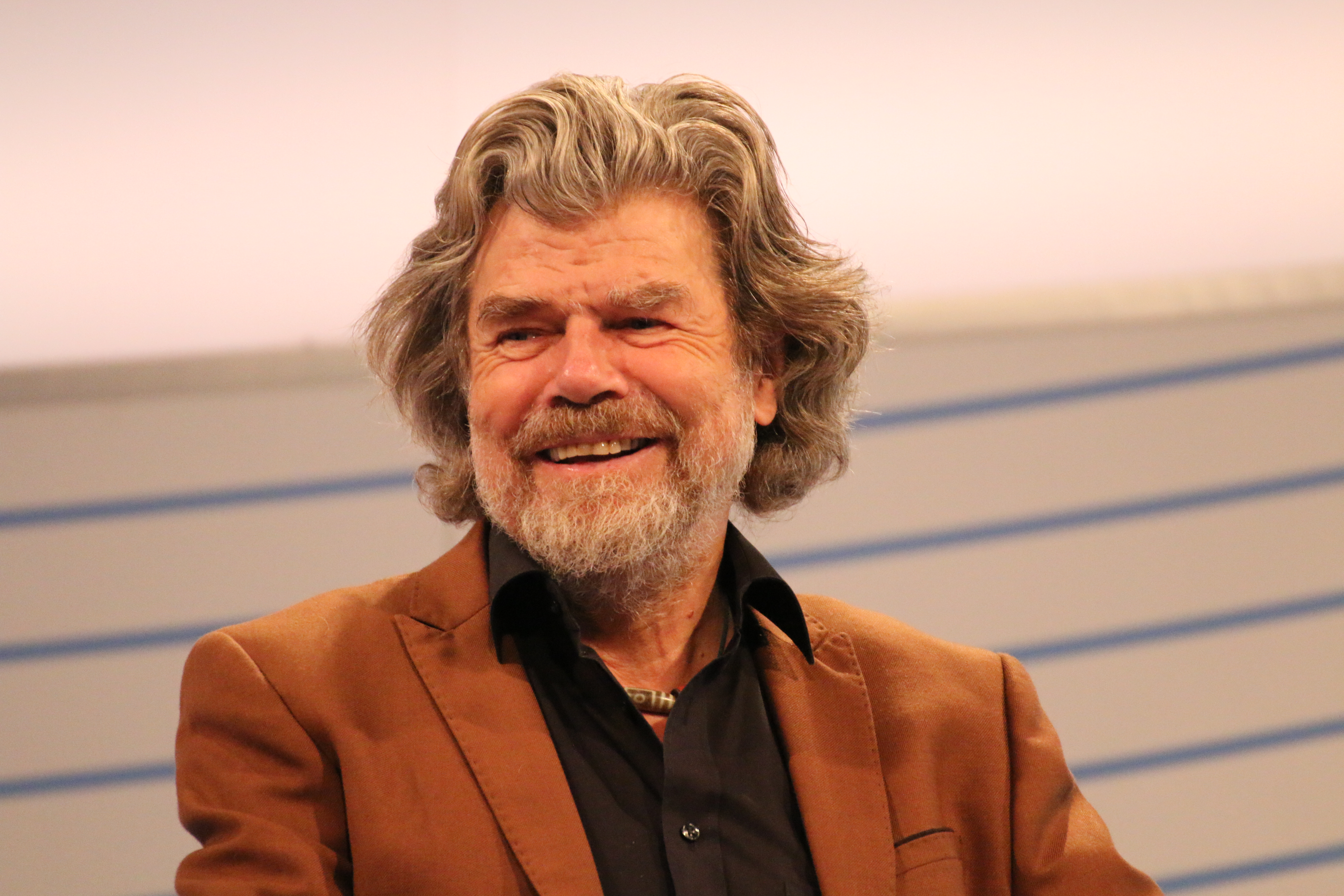 Reinhold Messner at the Frankfurt Book Fair 2017 on the ARD stage presenting his new book Wild.